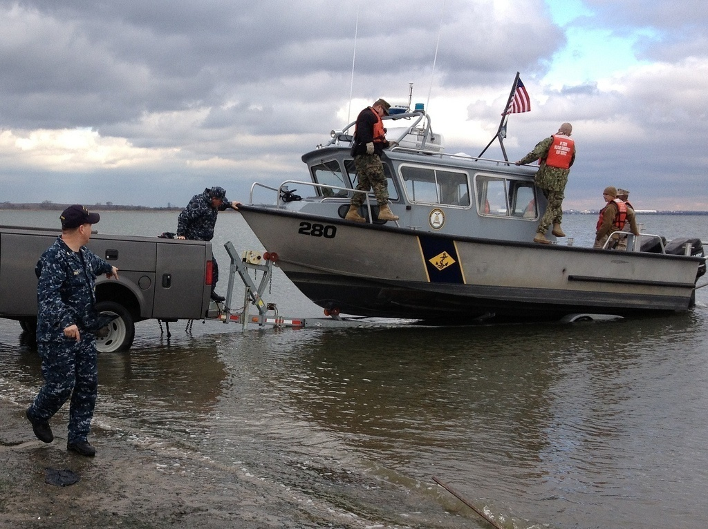 New York Naval Militia personnel on duty to assist New Yorkers affected by Hurricane Sandy, Nov. 3